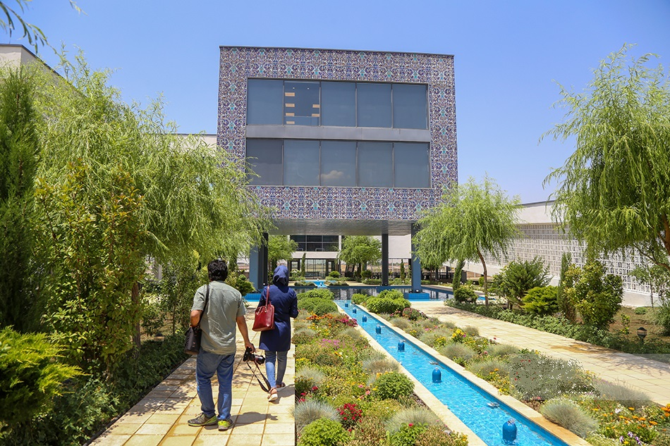 One of the buildings of Medicinal Herbs Garden Museum in Barakat Pharmaceutical Group